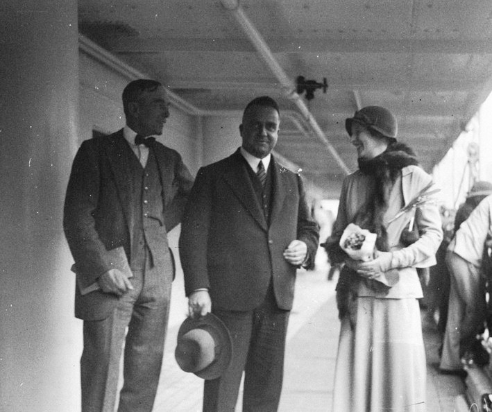 Image of Governor Sir Philip (left) and Lady Game (right) being farewlled by Premier Bertram Stevens, upon their departure from Sydney.